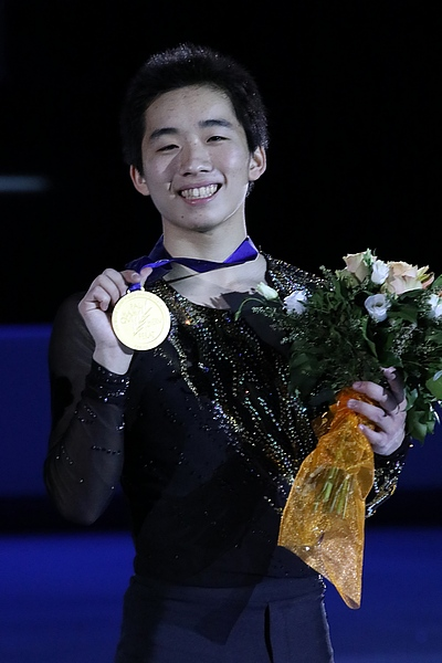 Tomoki Hiwatashi at the Junior World Championships 2019 - Awarding ceremony